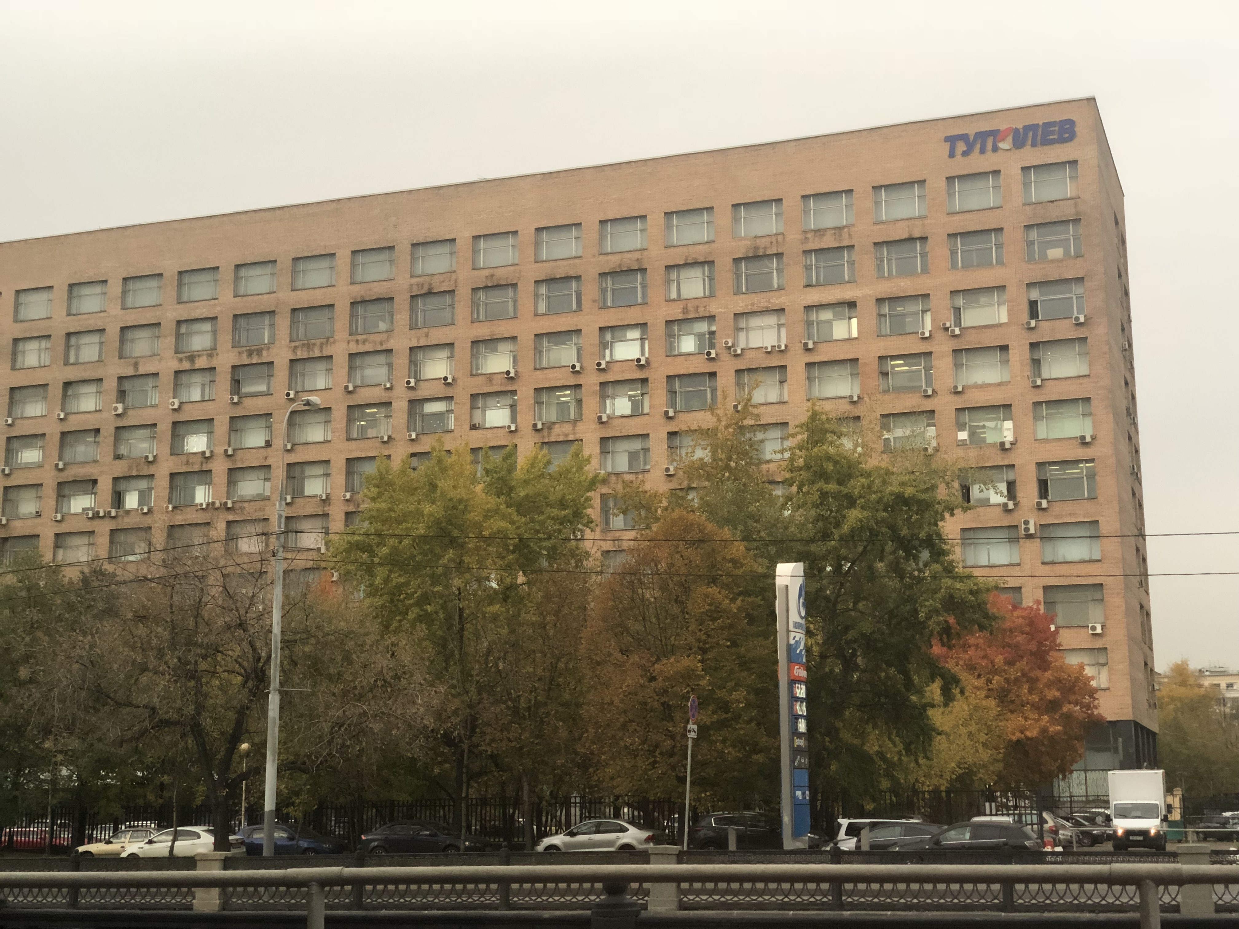 Tupolev Headquarters just outside Moscow